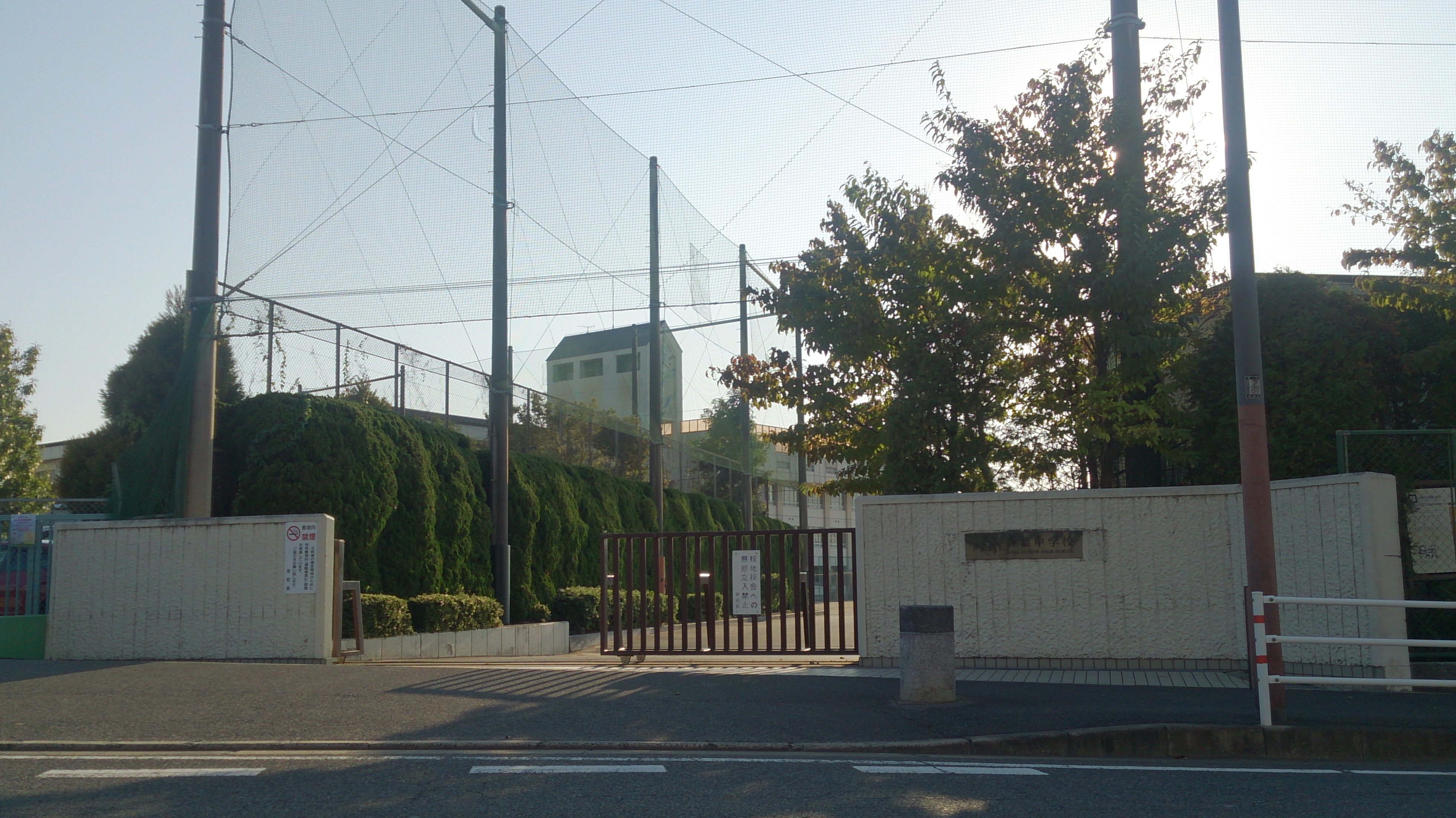 Aoba Junior High School North Gate